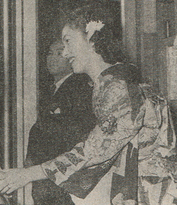 Ayako Sono on the day of her wedding with Shumon Miura, at the Tokyo Station Hotel.